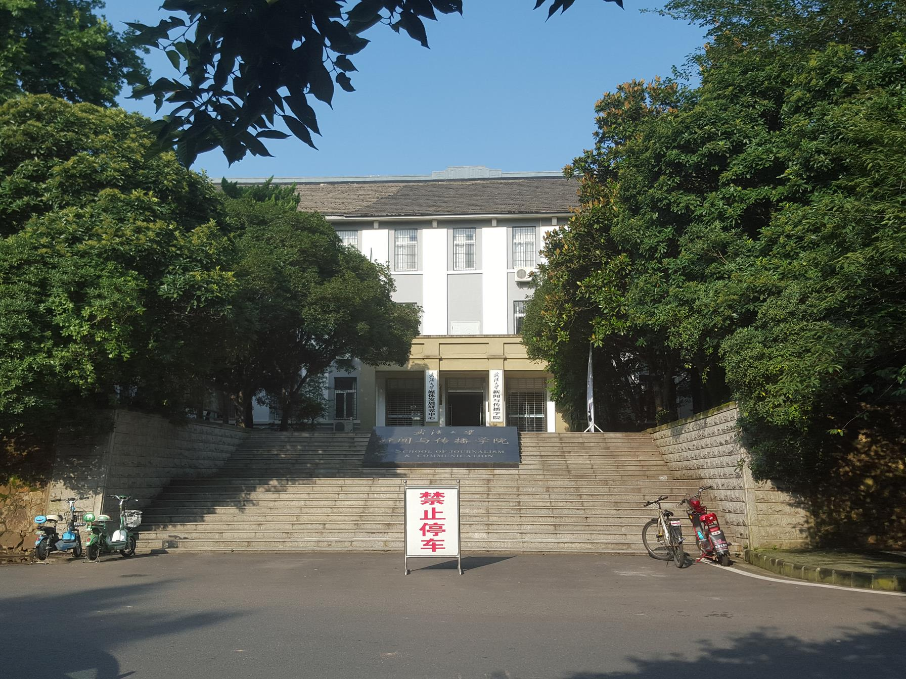 School of Journalism and Communication, Wuhan University